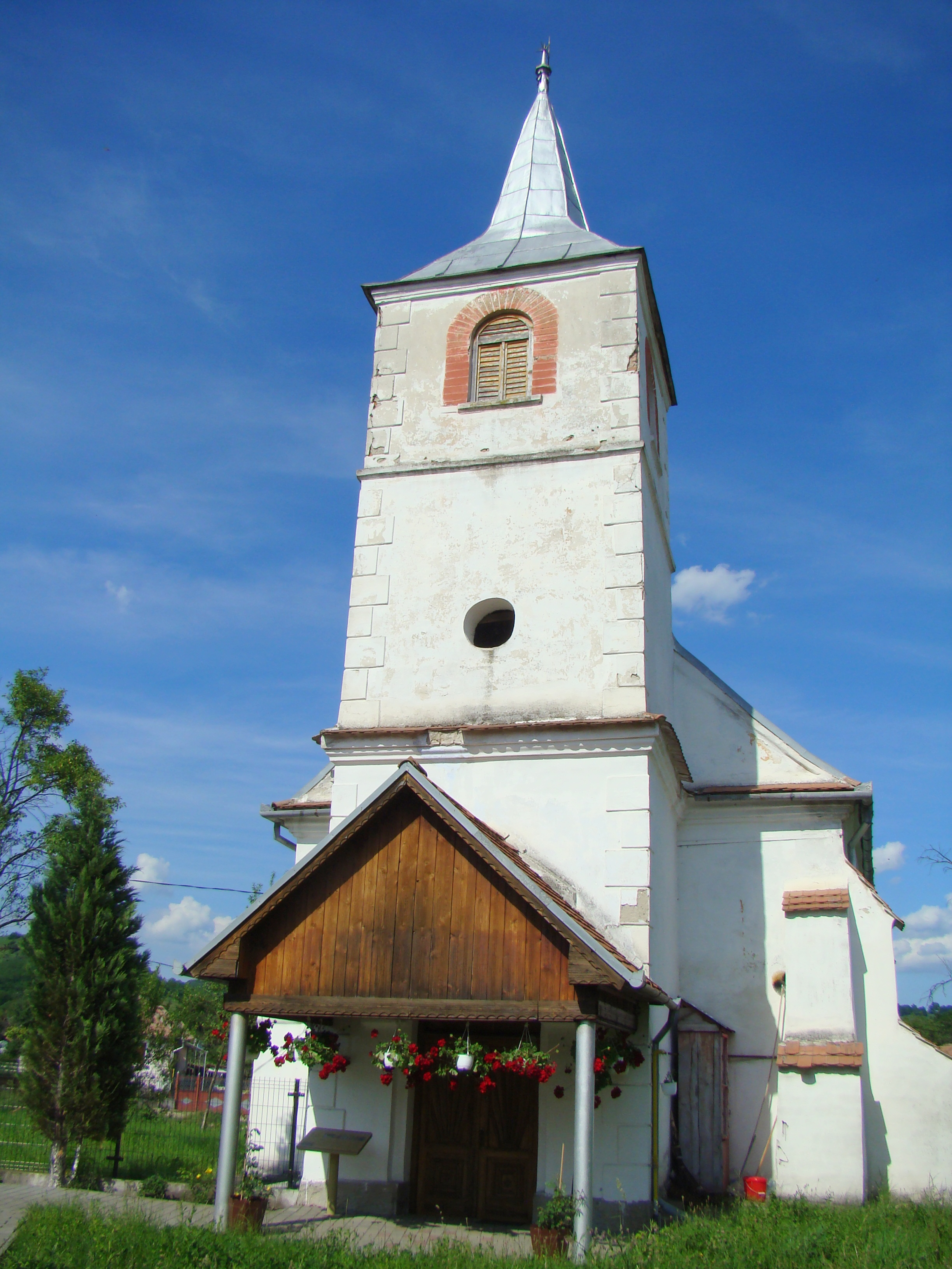 Reformed church in Alma, Sibiu county, Romania